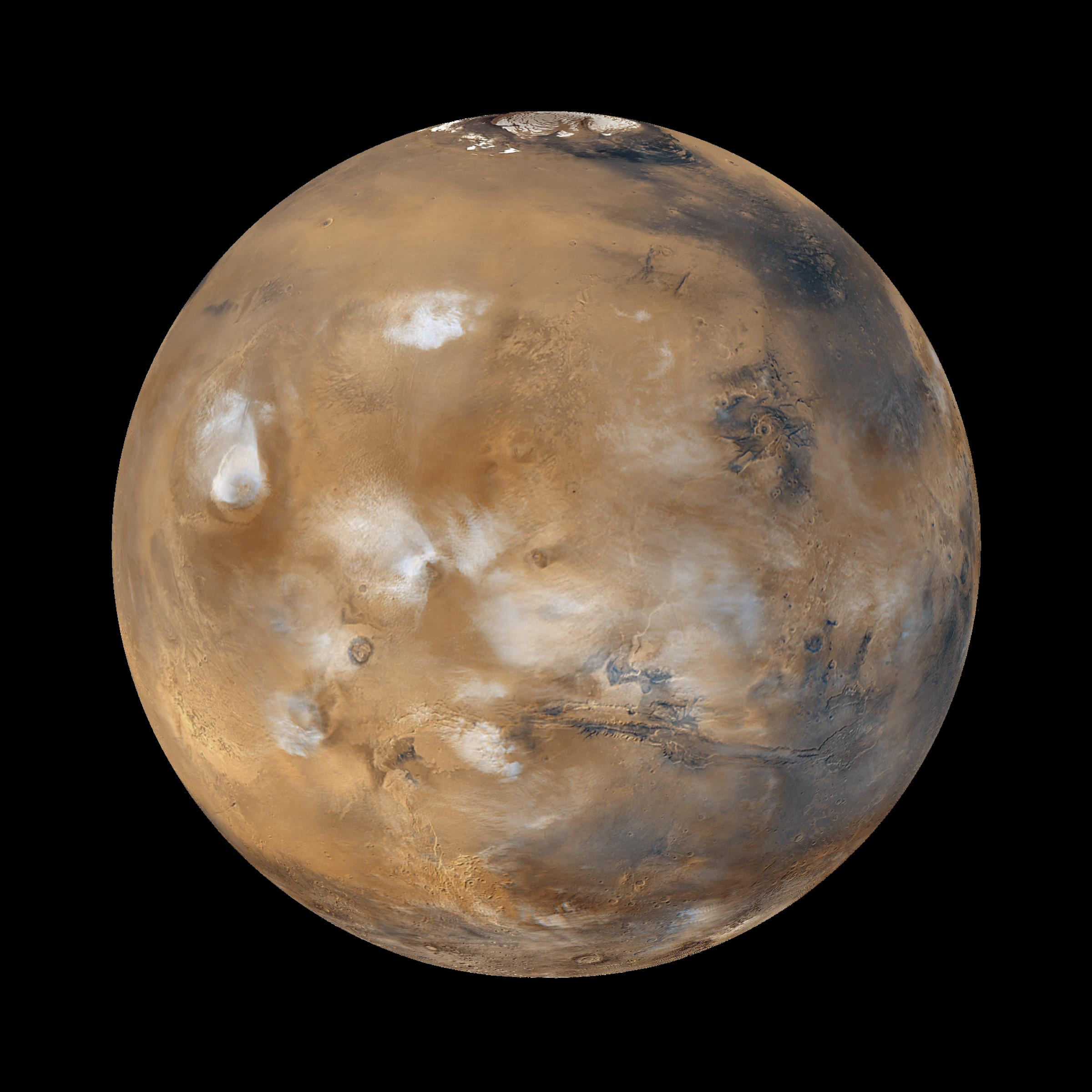 Blueish-white water ice clouds hang above the volcanoes of Tharsis, on Mars. Some of the features in this image have been annotated in Wikimedia Commons.